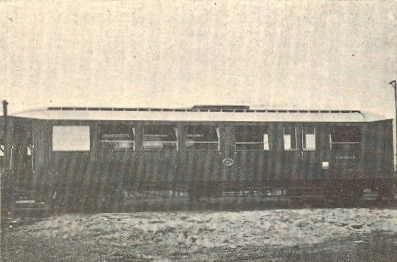 Third class carriage with integrated travelling post office, used since 1936 on the Vouga railway network, in Portugal. This photograph was published on the Gazeta dos Caminhos de Ferro magazine no. 1164, of the 16th June 1936, and scanned by the Hemeroteca Municipal de Lisboa.